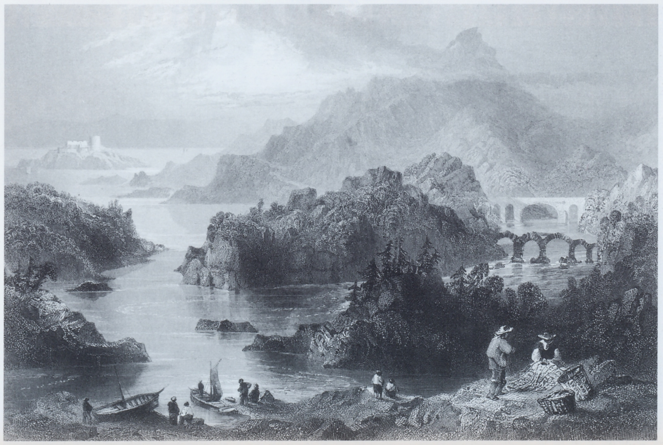 Scan of a print by William Henry Bartlett of Cromwell's Bridge, Glengariff, published c. 1842 in the work by J. Stirling Coyne: The Scenery and Antiquities of Ireland.